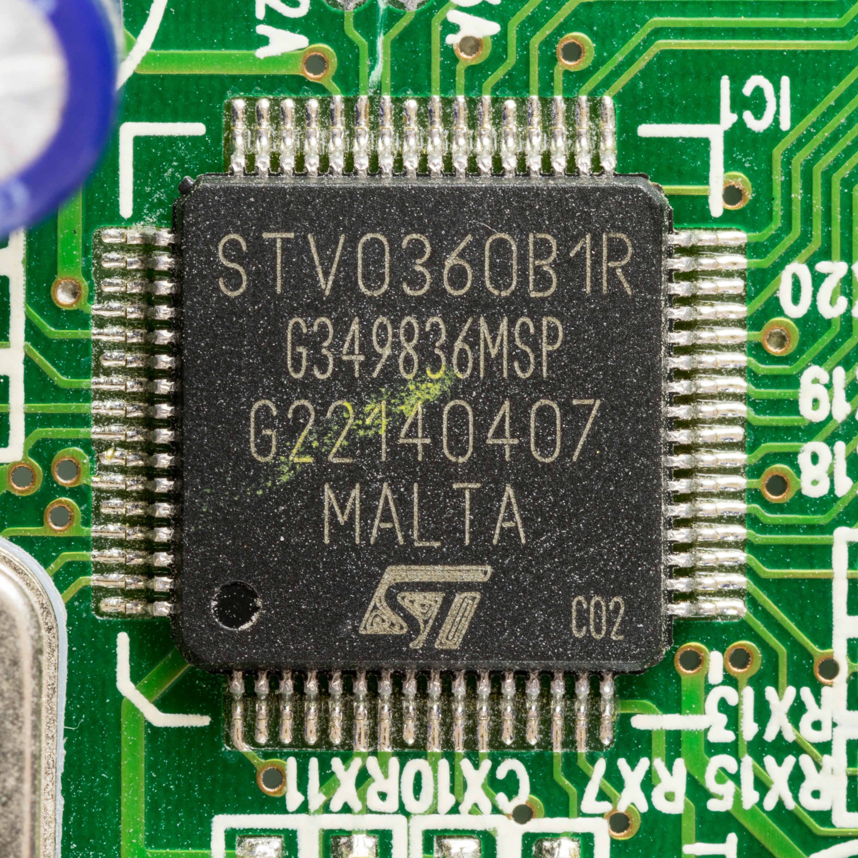 Skymaster DT 500 - STMicroelectronics STV0360B1R - COFDM demodulator IC for terrestrial TV set-top box